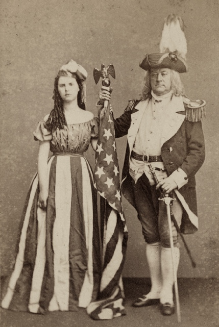 Photographic print cartes-de-visite of Frederick Coombs (1803-1874) aka George Washington II